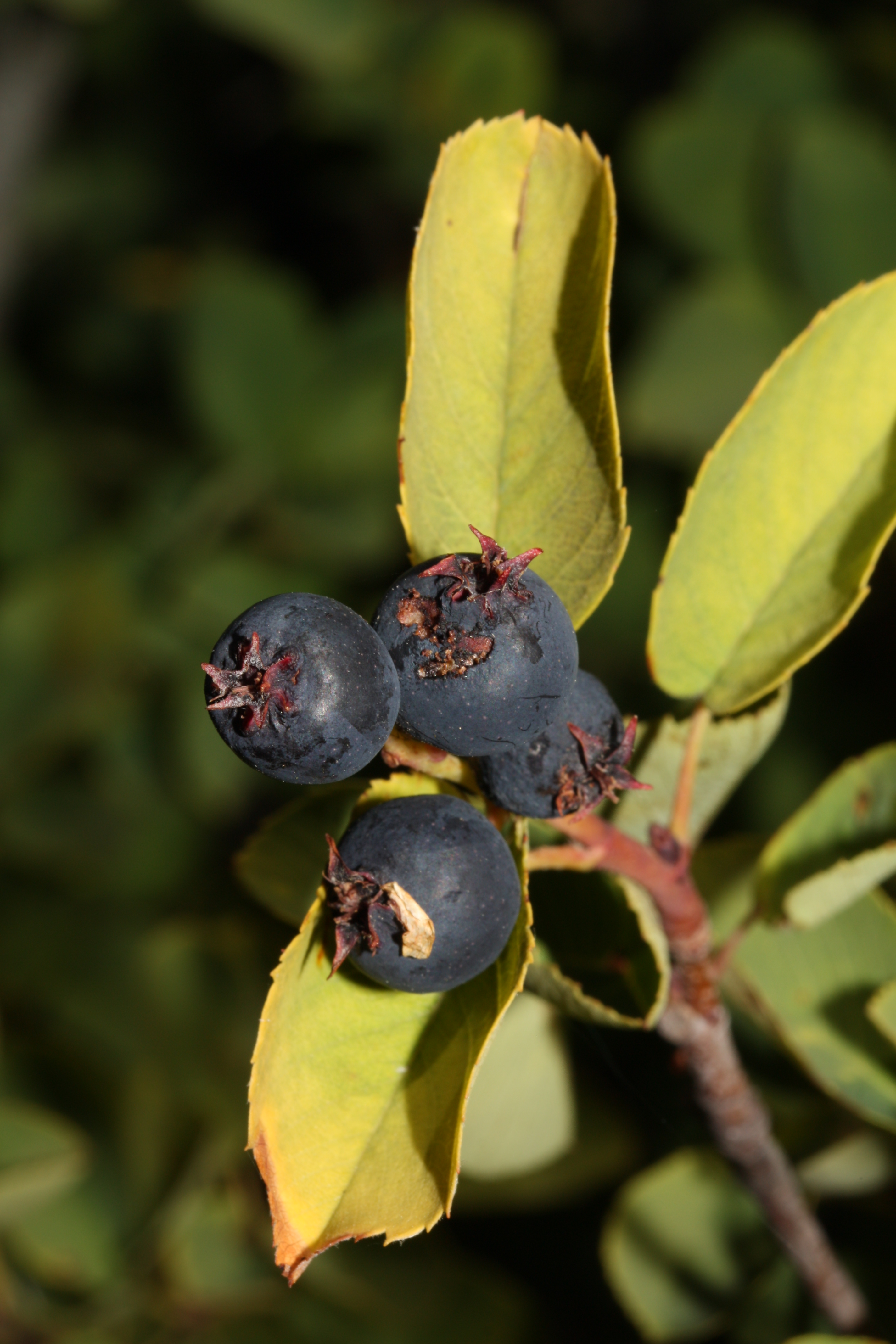 Saskatoon Serviceberry, Western Serviceberry